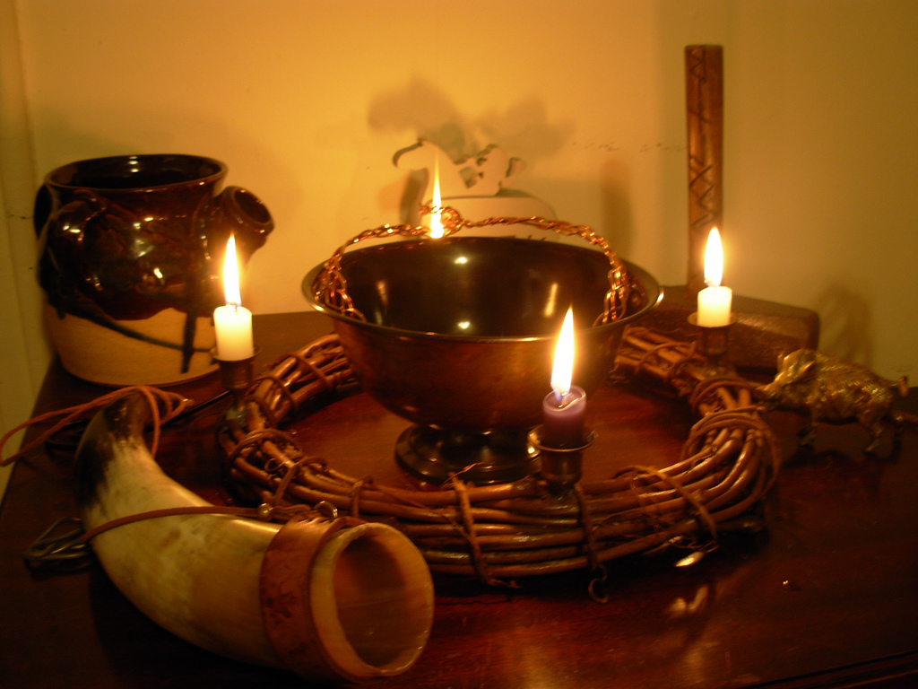 Very essential Heathen altar.